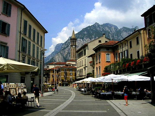 The steeple of the church San Nicolò seen from the Piazza XX Settembre in Lecco and in the background the montain "Monte San Martino".